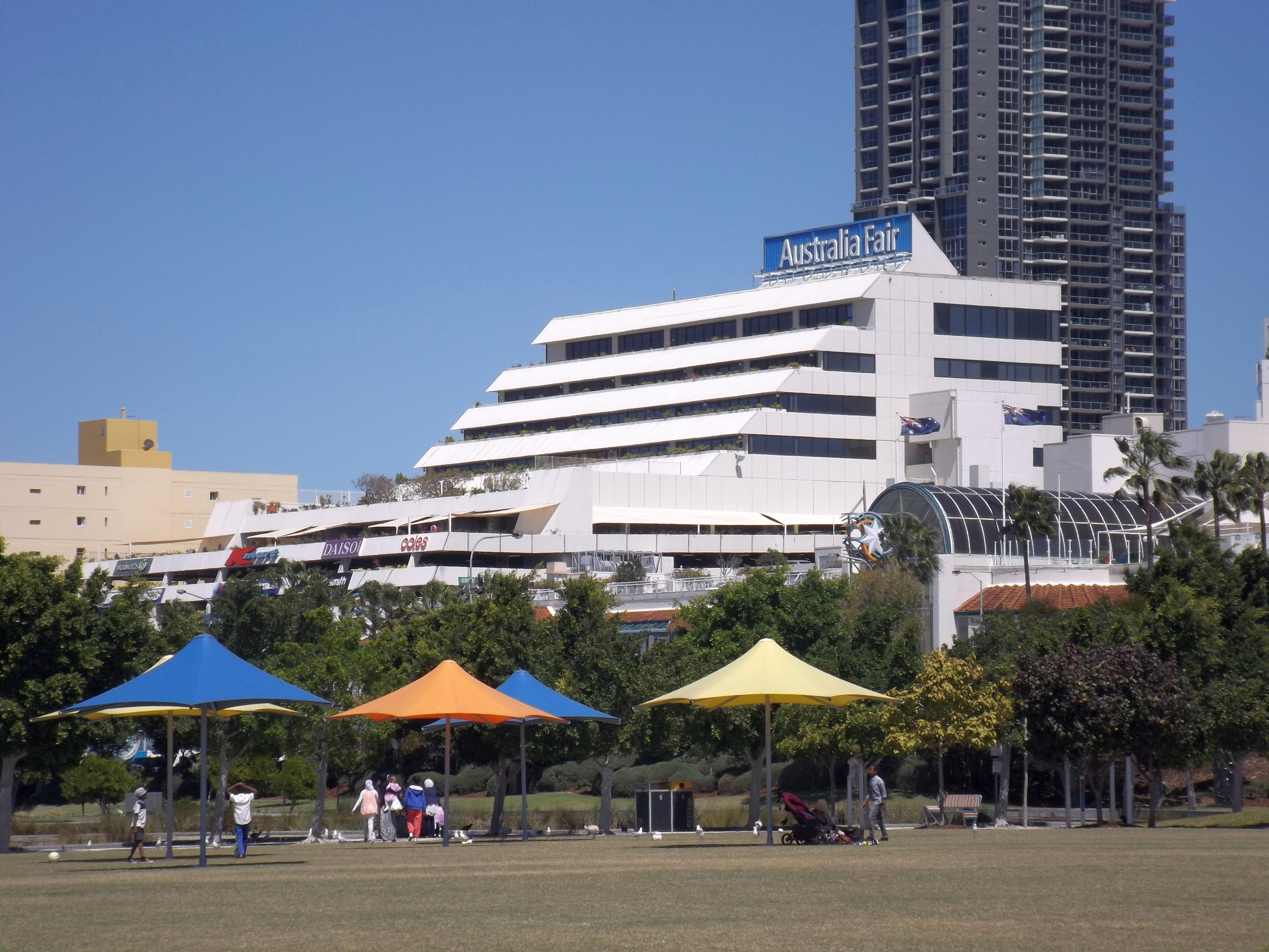 Photo of the upper levels of the Australia Fair Shopping Centre, Southport, Gold Coast City, Queensland, Australia. Southport Broadwater Parklands can be seen in the foreground.